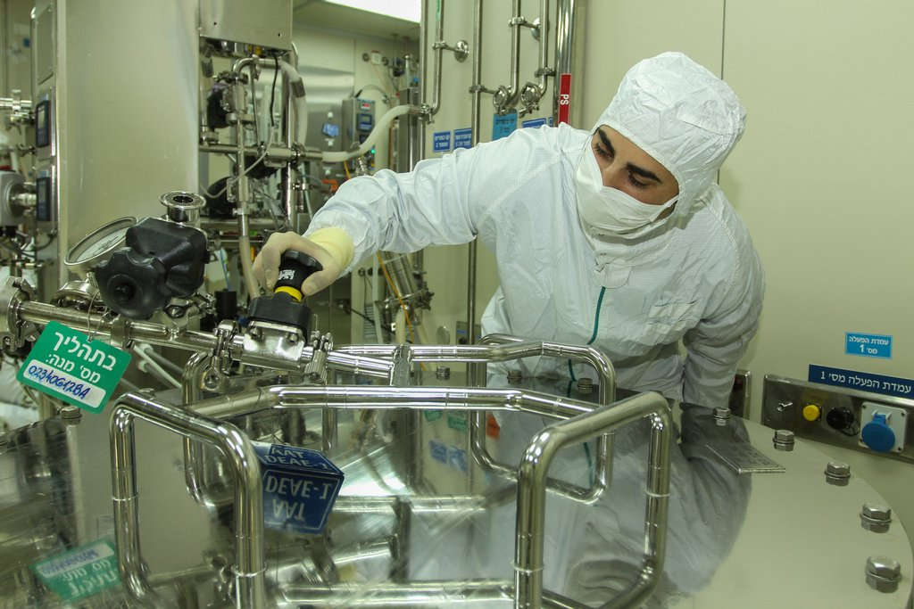 Kamada's Cleanroom